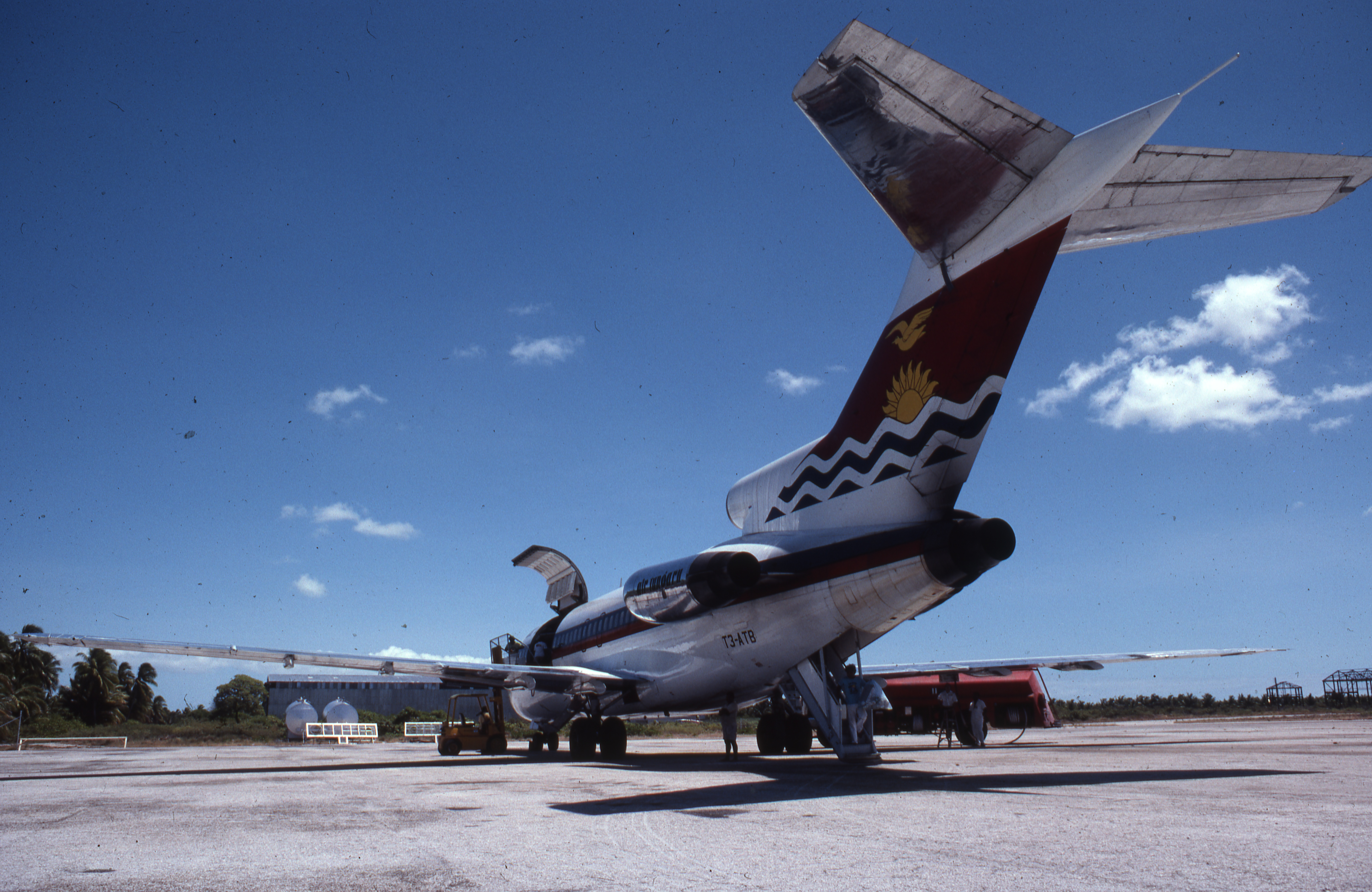 Air Tungaru Boeing 727-030C at Bonriki Airport, Tarawa, around 1984